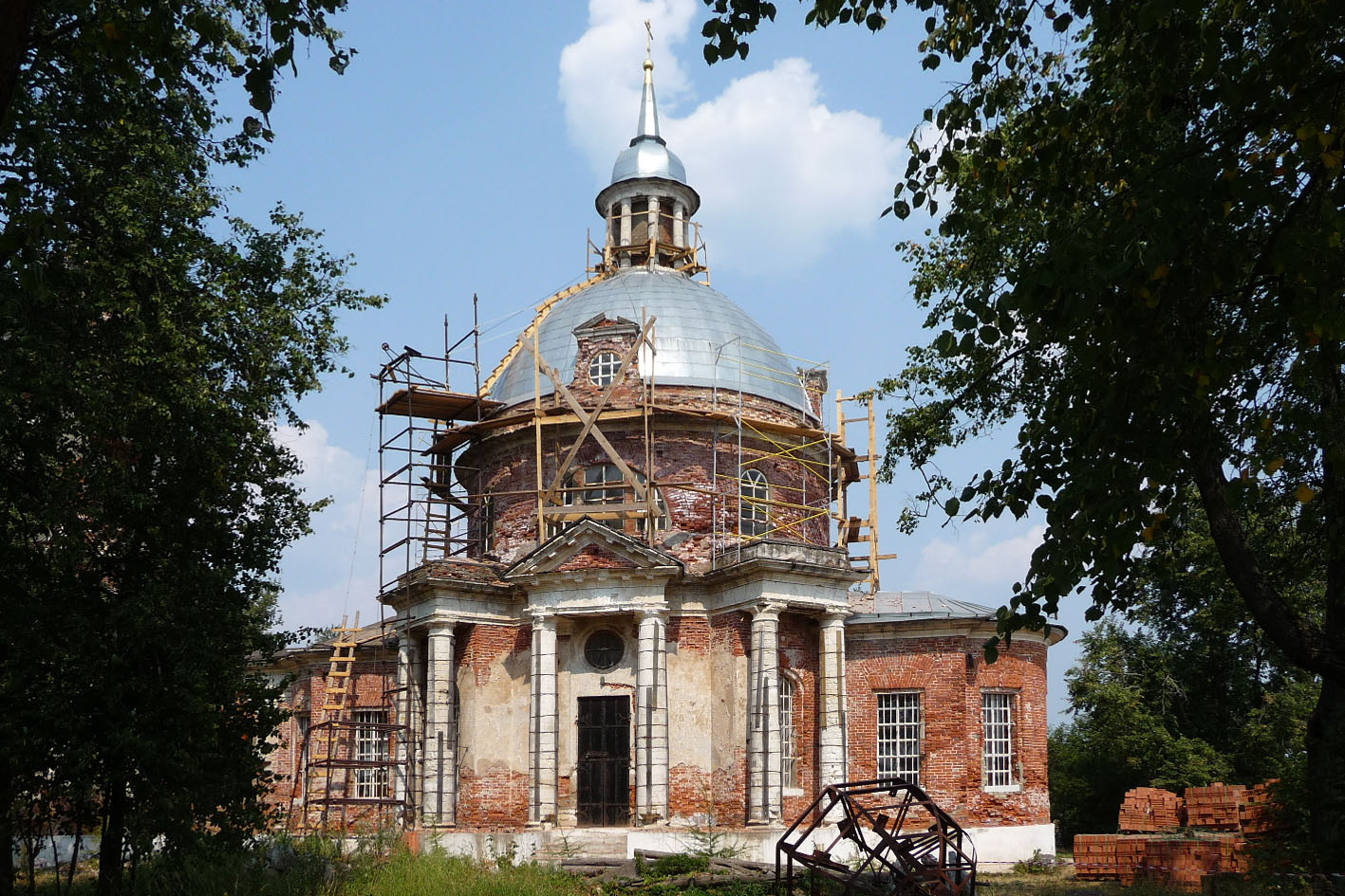 Church of the Theotokos of Kazan (1801) in the village of Bogoslovo, Shchyolkovsky District, Moscow oblast, Russia